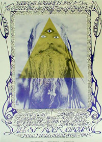 Famous poster advertising the Human Be-In made by Michael Bowen